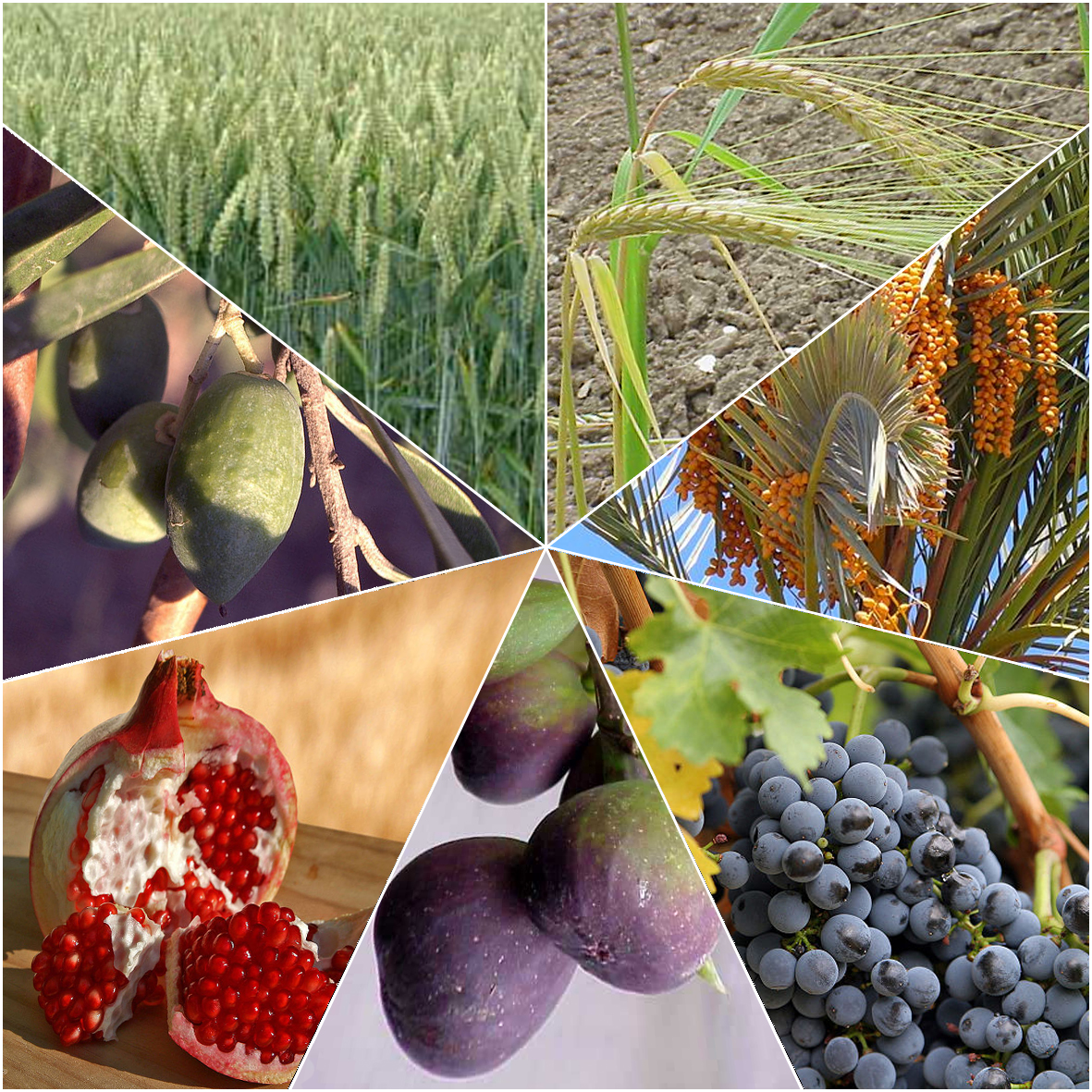 The seven Species of the Land of Israel are listed in the biblical verse Deuteronomy 8:8 : a land with wheat and barley, vines and fig trees, pomegranates, olive oil and [date] honey